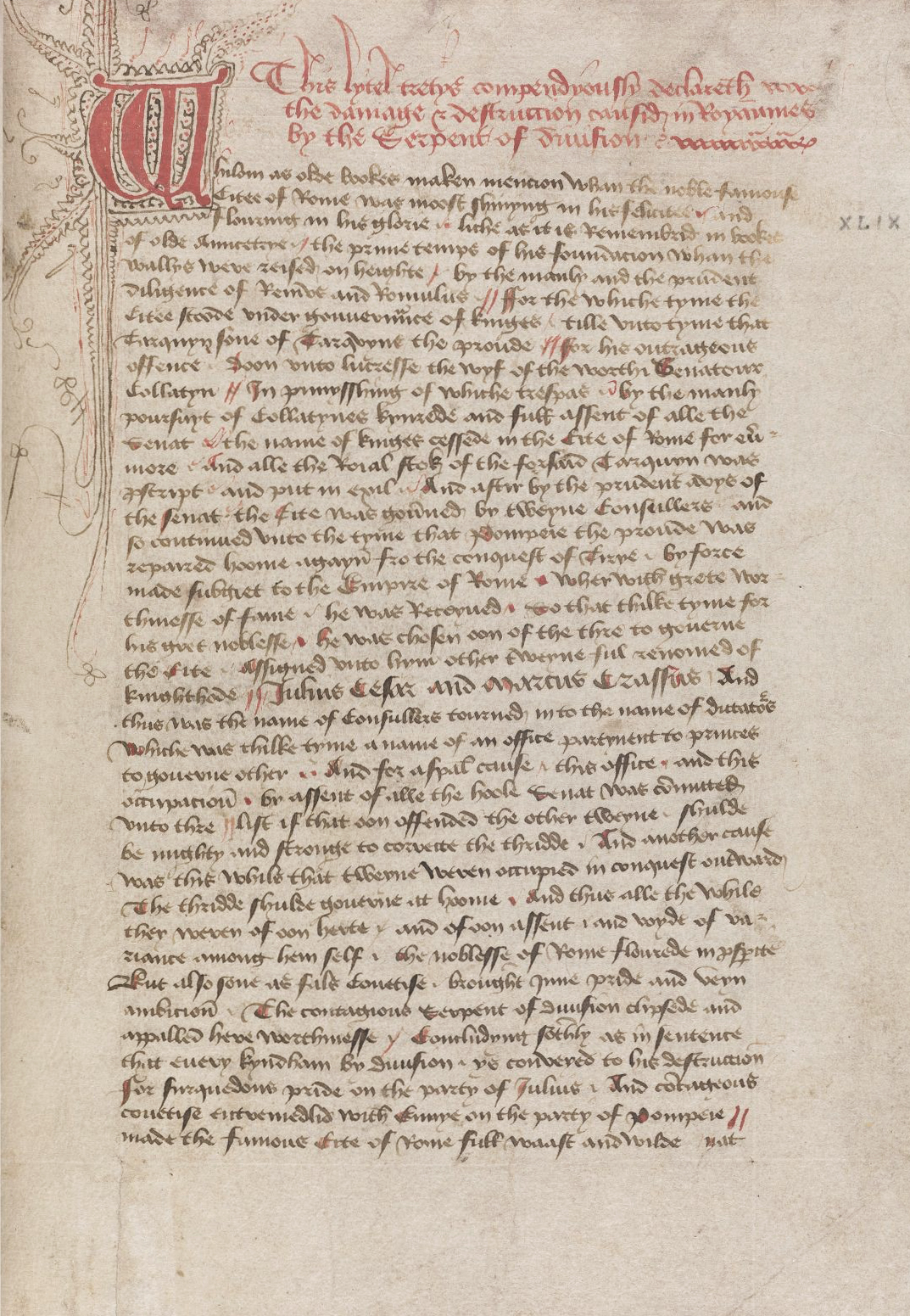 Manuscript: "Damage and destruction in realmes", ca. 1450, by John Lydgate (1370?-1451?). MS Eng 530, Houghton Library, Harvard University